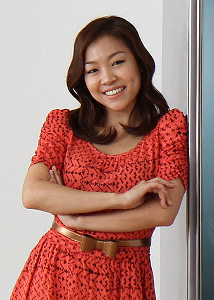 American contemporary R&B singer Lena Park, in October 2011.